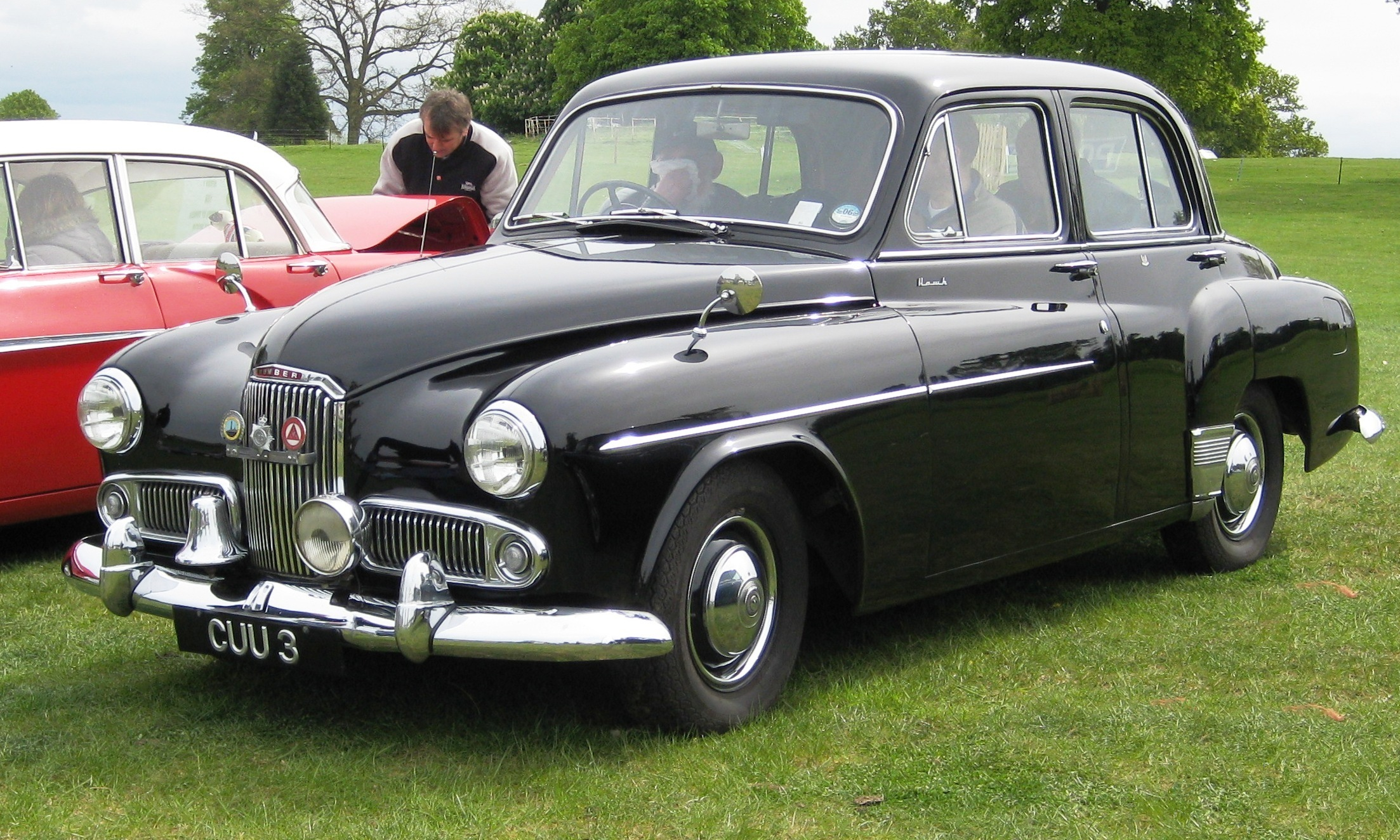 Humber Hawk Mk VIA near Biggleswade